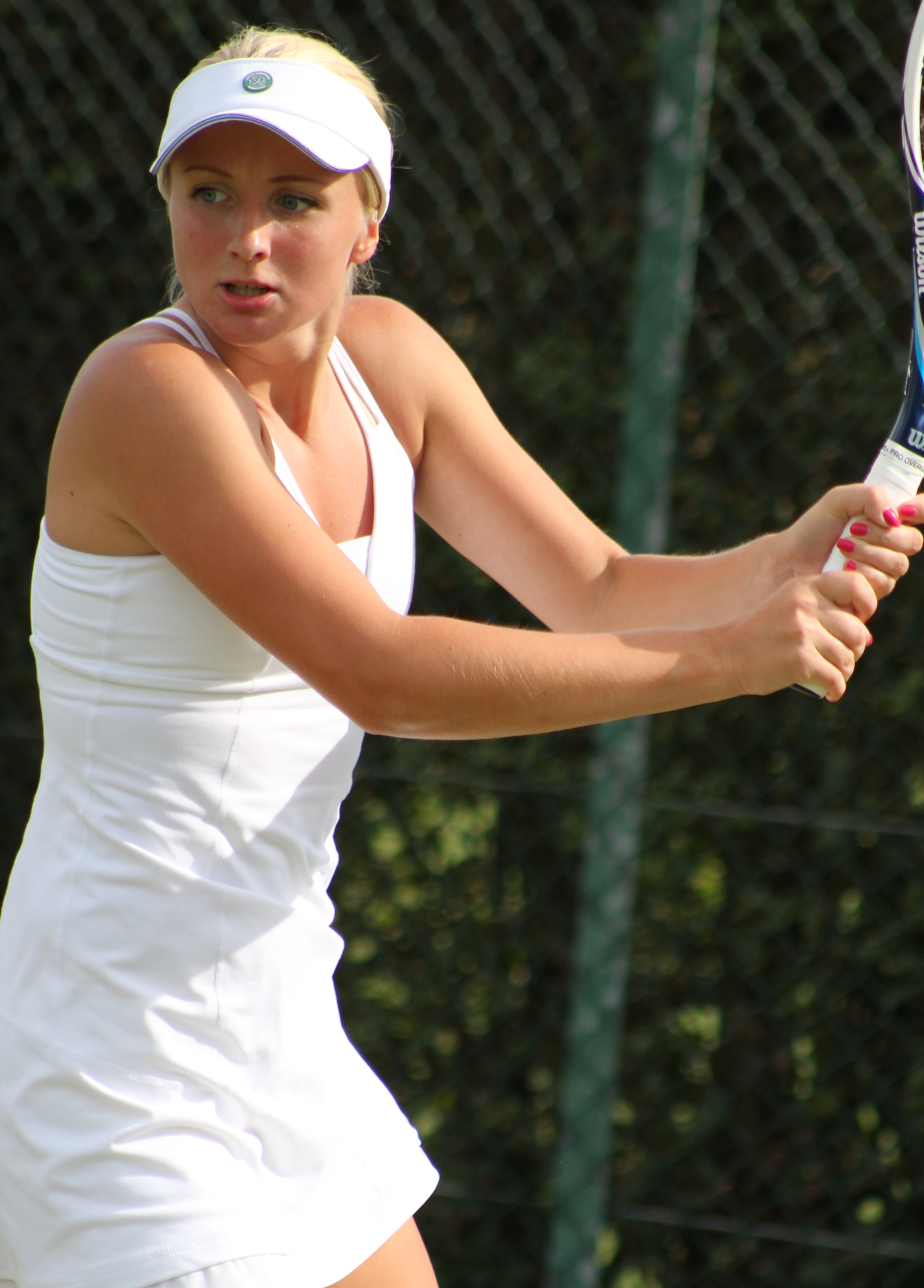 Marcinkevica WMQ14 (10)